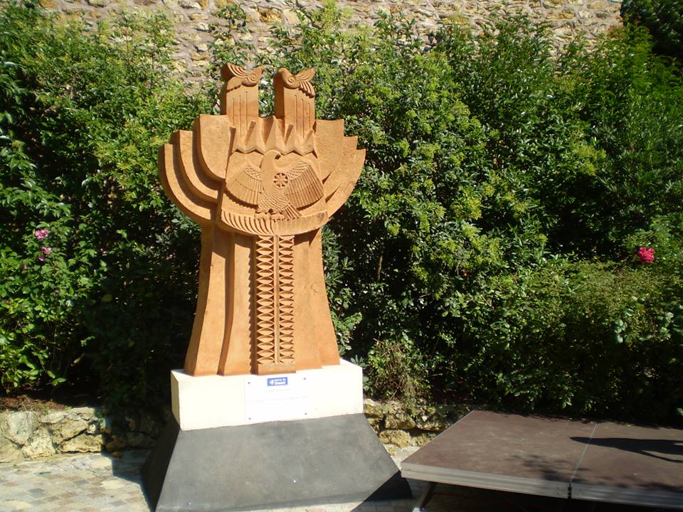 Œuvre de Gurgen Hakobyan consacré à l'amitié arménienne française